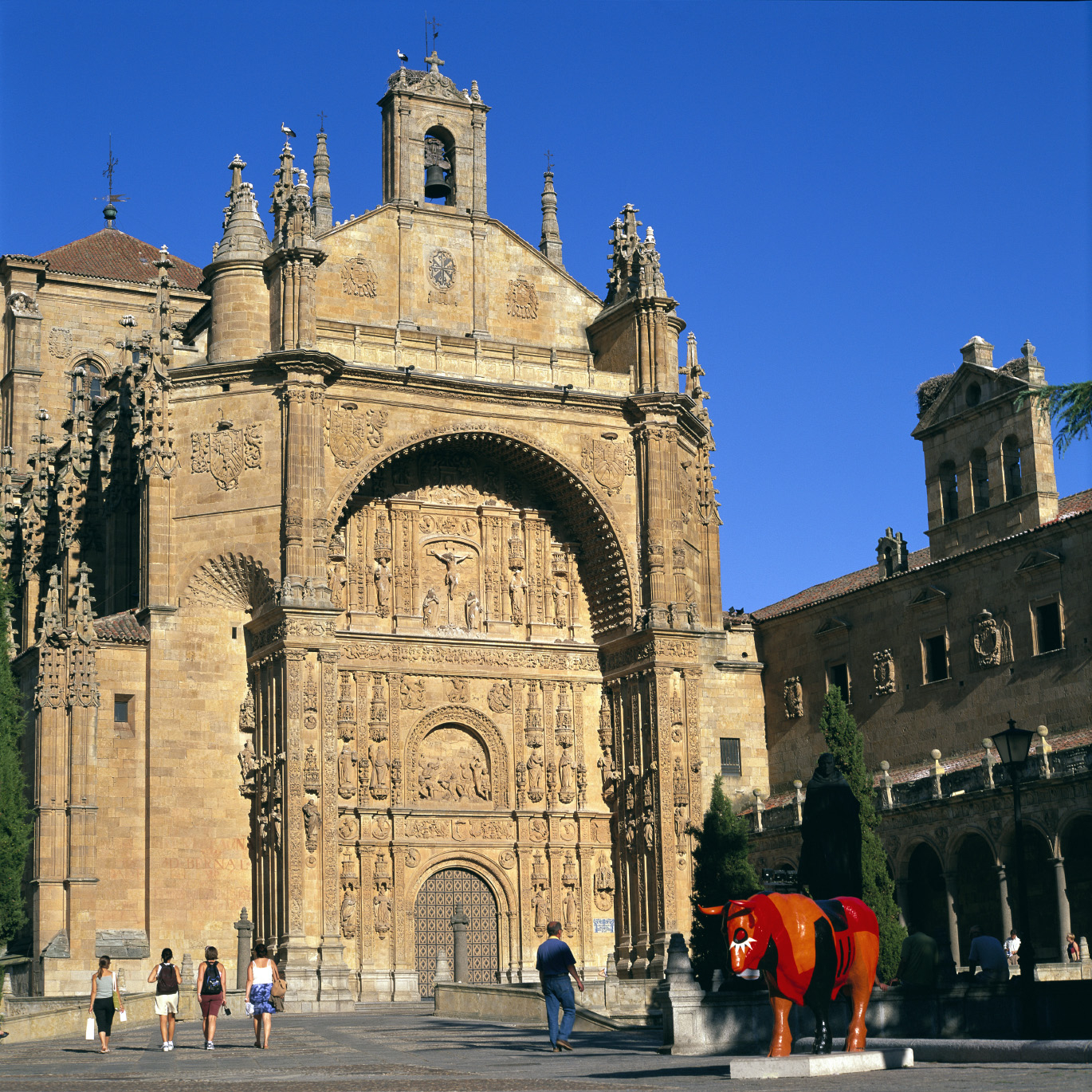 Old City of Salamanca (Spain)